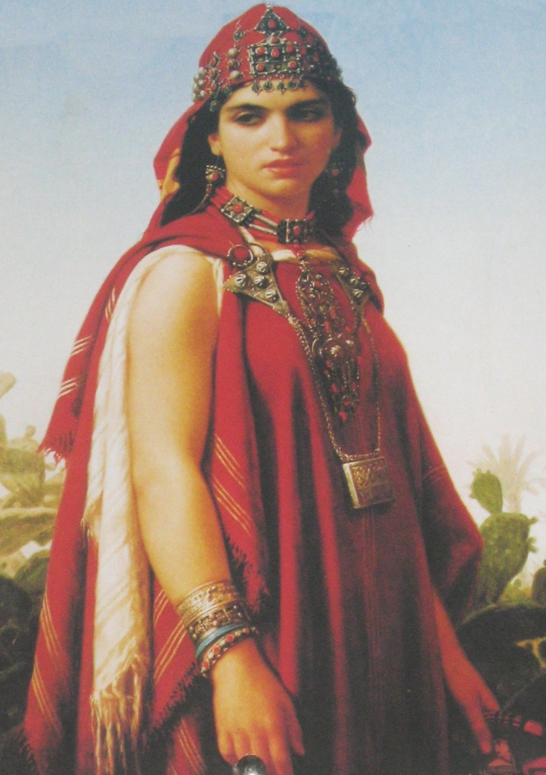 Bad reproduction of the painting Femme berbère.